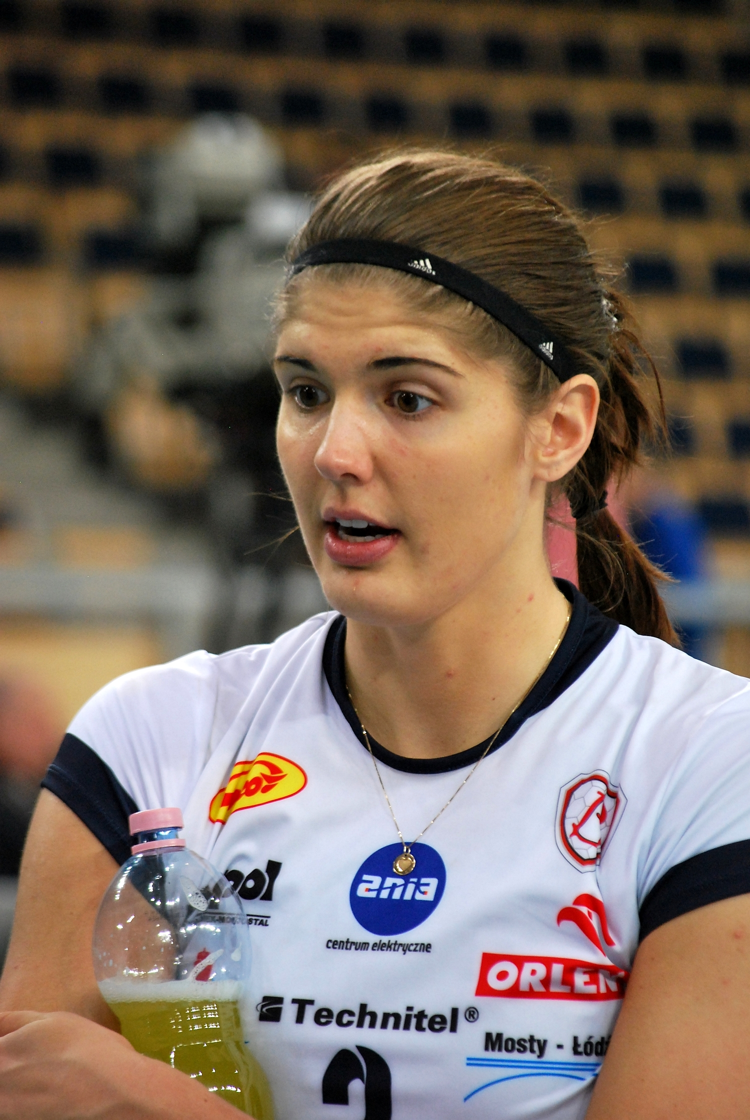 Tabitha Love, volleyball player from Canada